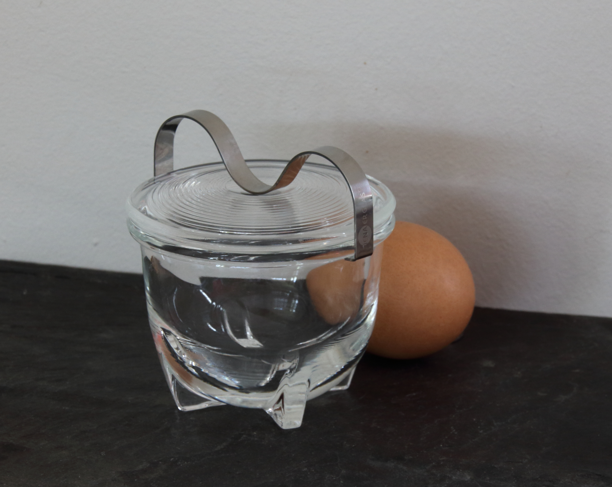 Egg coddler No.2, Jenaer Glas. Derived from the 1934 by Wilhelm Wagenfeld designed original.